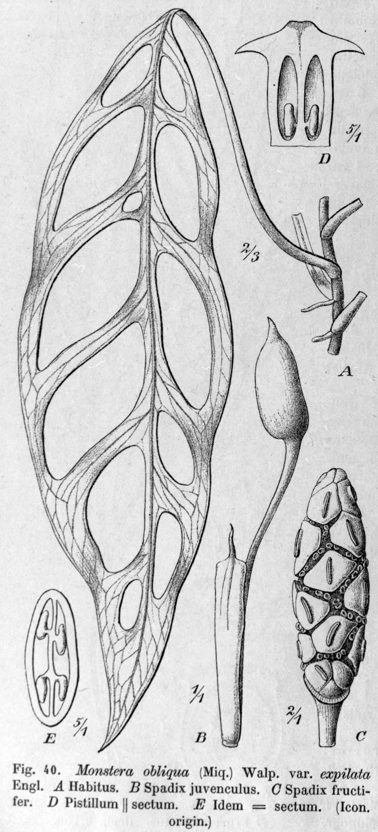 Monstera obliqua